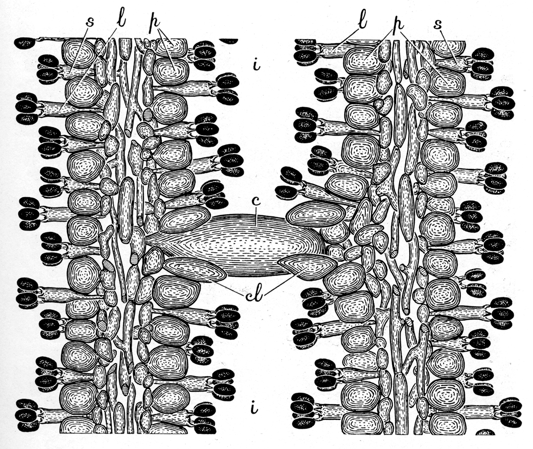 Original Caption: "Coprinus lagopus. Transverse section through two gills of an unexpanded fruit-body (cf. Fig. 143), highly magnified. The hymenium consists of: short basidia, s; long basidia, l; and paraphyses, p. The subhymenium and trama are but small in amount and not sharply marked off from one another. The cystidium, c, crosses the interlamellar space, i i, and is attached to the two gills by both its ends. These ends strongly adhere to certain enlarged paraphyses or clasping-cells, cl. Magnification, 293."